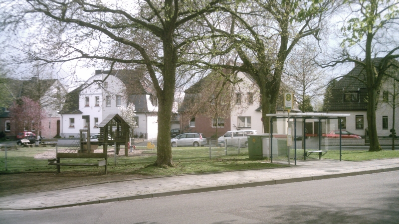 Eigenheim, Hoser, Viersen, Germany